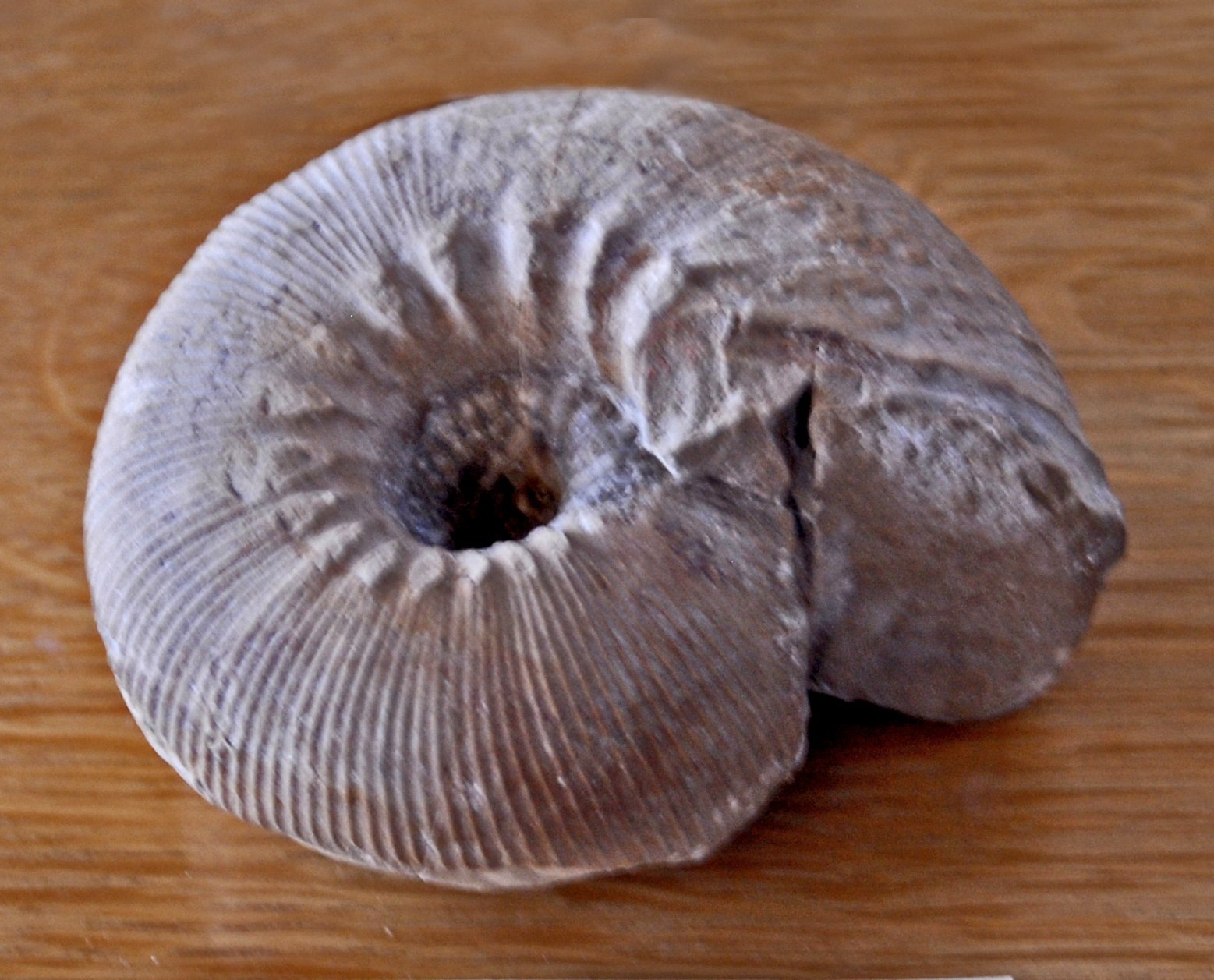 Crop of file in filename